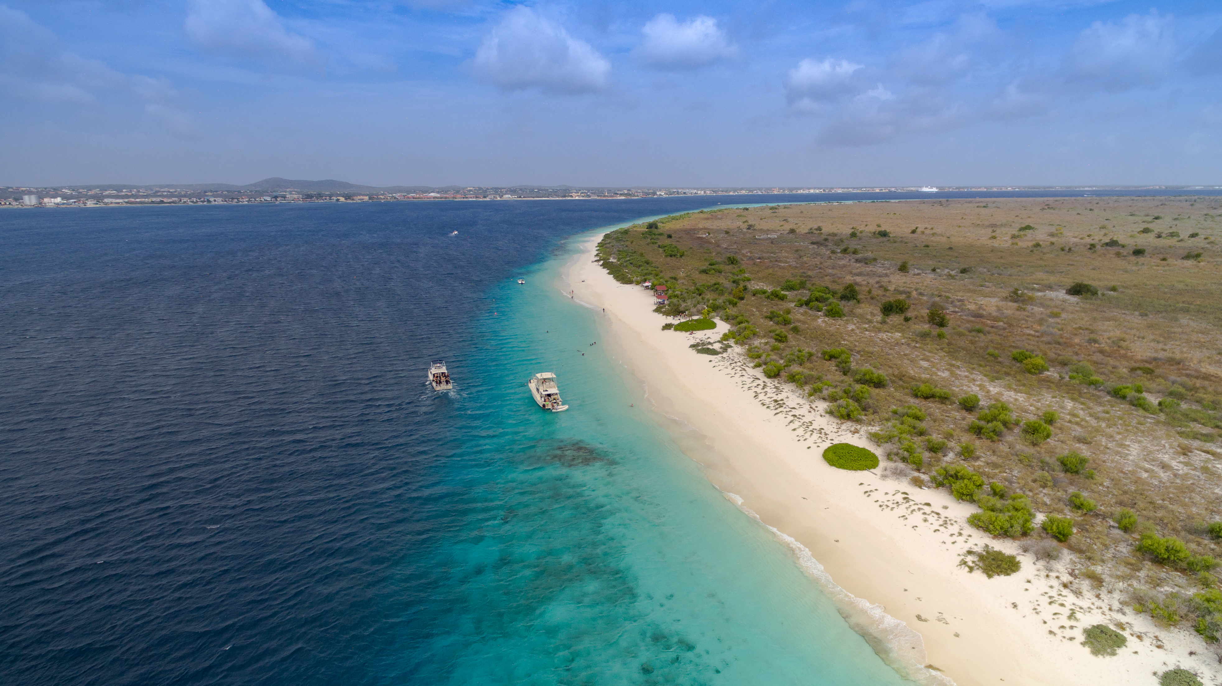 Klein Bonaire Strand Curacao aerial